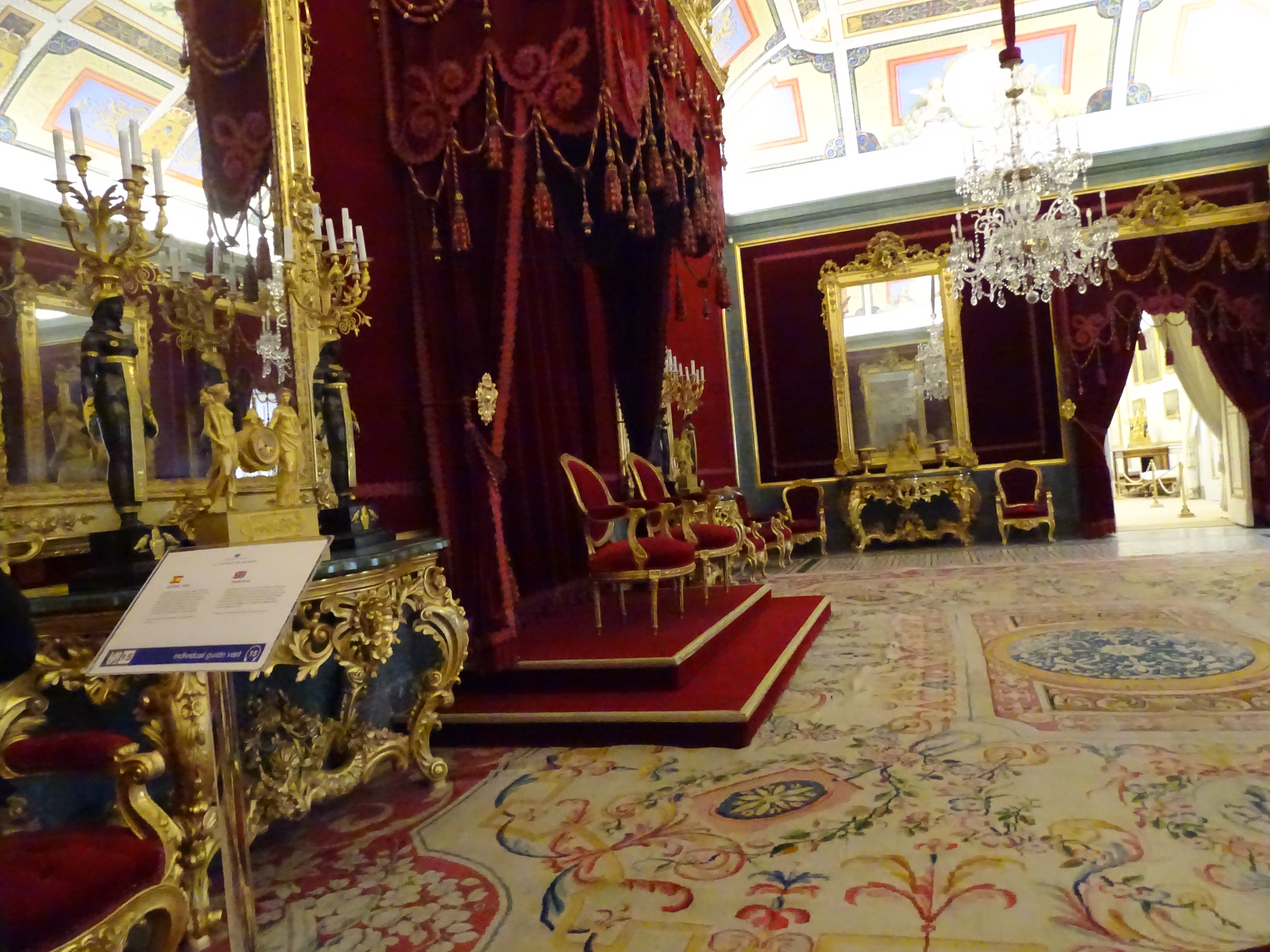 Palacio Real de Aranjuez - Throne room